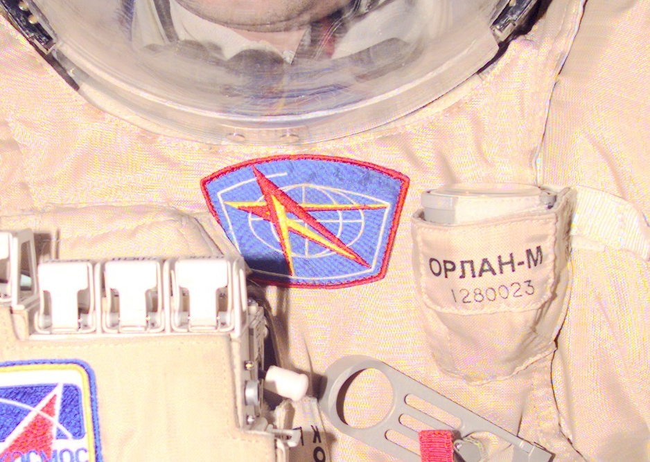 escutcheon of NPP Zvezda on a Russian Orlan spacesuit